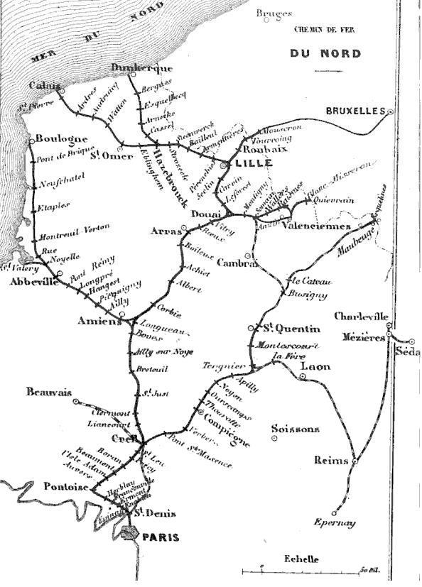 French "Chemin de fer du Nord" From "Les chemins de fer français" (French railways) by Victor Bois, Paris, Hachette, 1853.